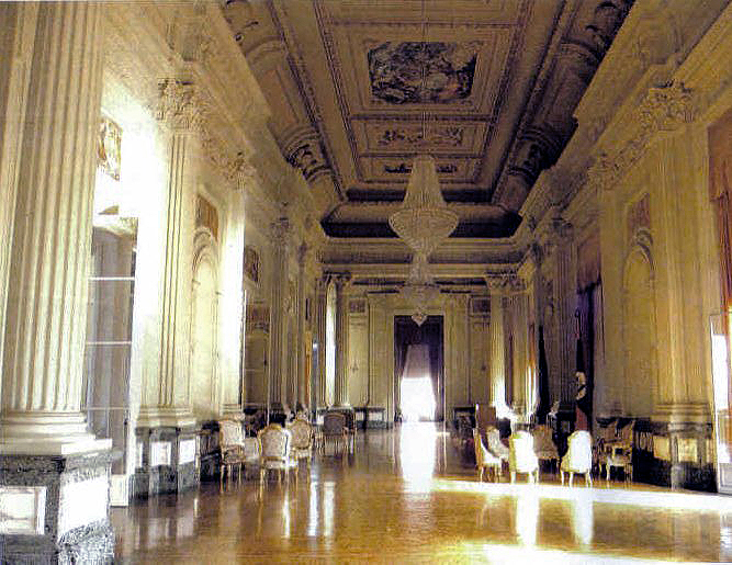 Piratini Palace (Rio Grande do Sul, Brazil, Governor's palace), Negrinho do Pastoreio lounge, own work, September 2006